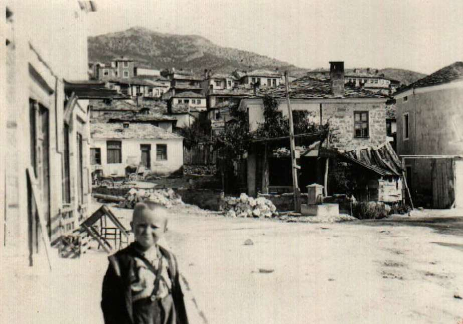 Hvoyna village, Bulgaria